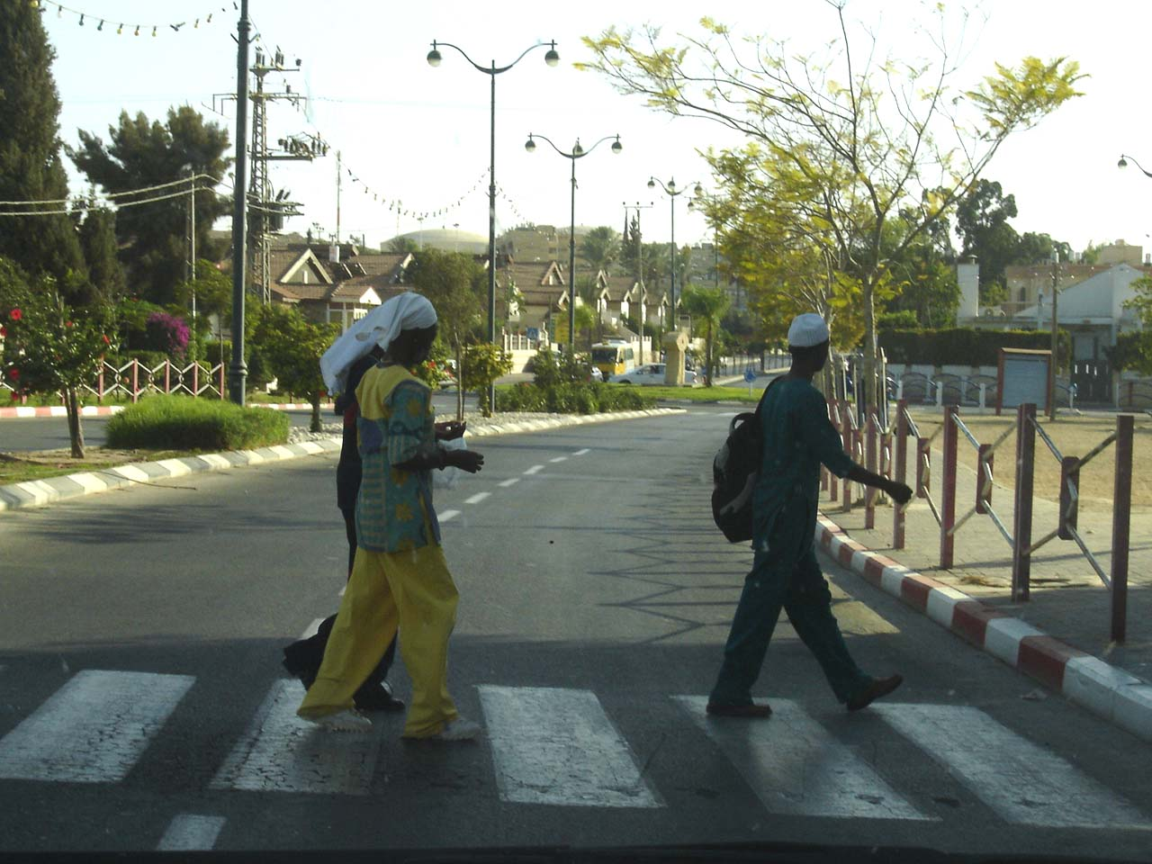 Few members of the black hebrew community in Dimona (Israel). This particular group of black hebrews (african americans who claim they are hebrews) call itself African Hebrew Israelite Nation of Jerusalem. The Black Hebrews are African-Americans who came to Israel in the 1960s, numbering only a 100 or so, now they number 1200. They have their own style of dress, eat organic food, have a community in Dimona.